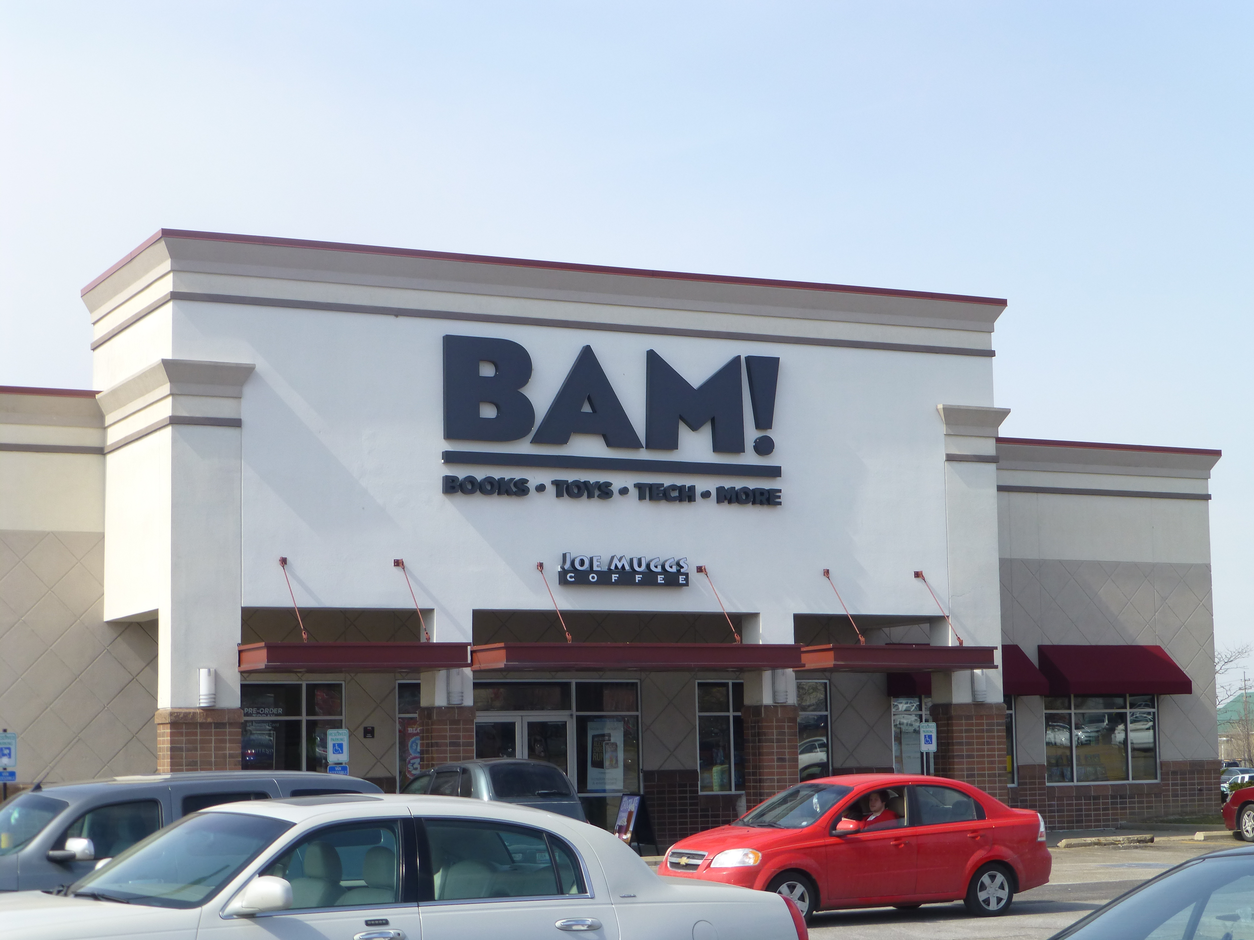 A BAM! store that reuses a former Borders Books & Music store in Cuyahoga Falls, Ohio.